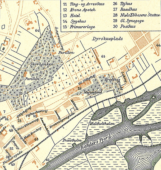 Detail of map of Randers in Denmark c. 1900 Detail of a quarter in Randers named after the now protected or listed building, the old armory from 1801 after the war with England (Battle of Copenhagen (1801)) Nr. 26 'Tøjhus' on the map is the armory. A canal leads to the plant for easy transport of heavy material arriving on ships.